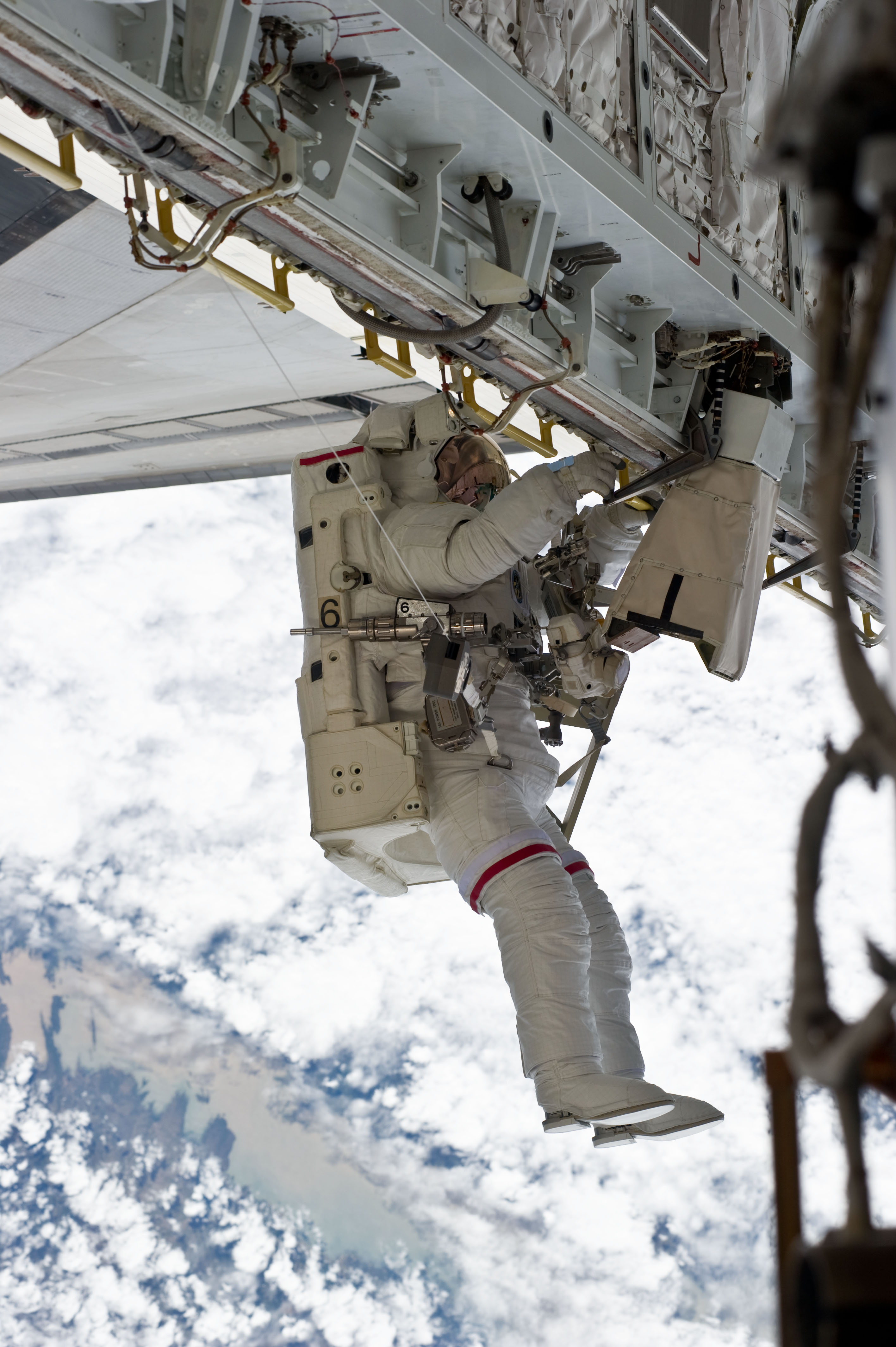 NASA astronaut Rick Mastracchio, STS-131 mission specialist, participates in the mission's third and final session of extravehicular activity (EVA) as construction and maintenance continue on the International Space Station. During the six-hour, 24-minute spacewalk, Mastracchio and astronaut Clayton Anderson (out of frame), mission specialist, hooked up fluid lines of the new 1,700-pound tank, retrieved some micrometeoroid shields from the Quest airlock's exterior, relocated a portable foot restraint and prepared cables on the Zenith 1 truss for a spare Space to Ground Ku-Band antenna, two chores required before space shuttle Atlantis' STS-132/ULF-4 mission in May.